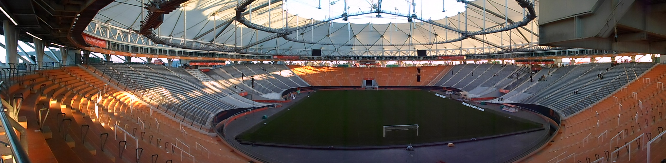 Panorama del estadio unico ciudad de la plata